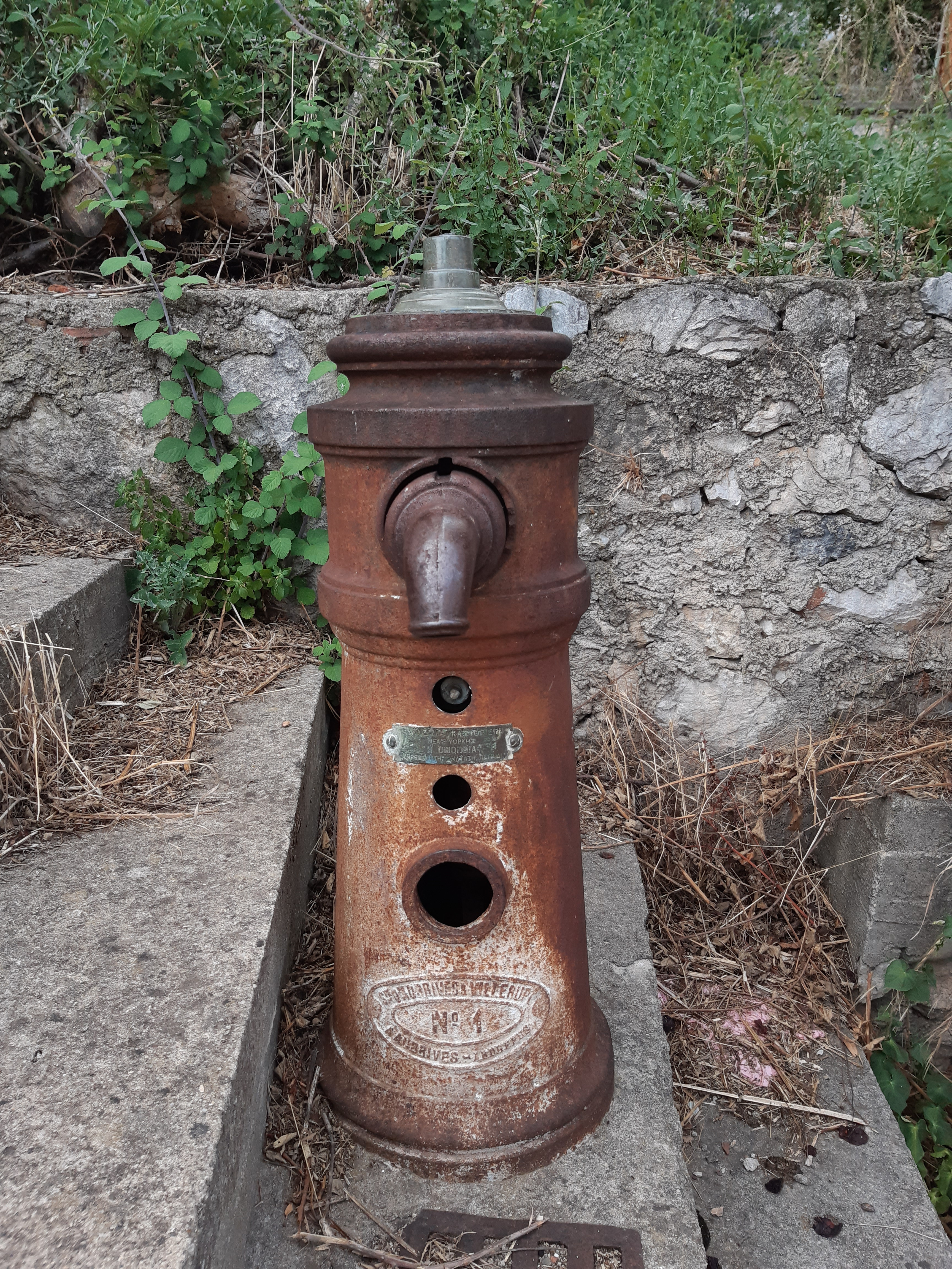 Stefanis Mansion